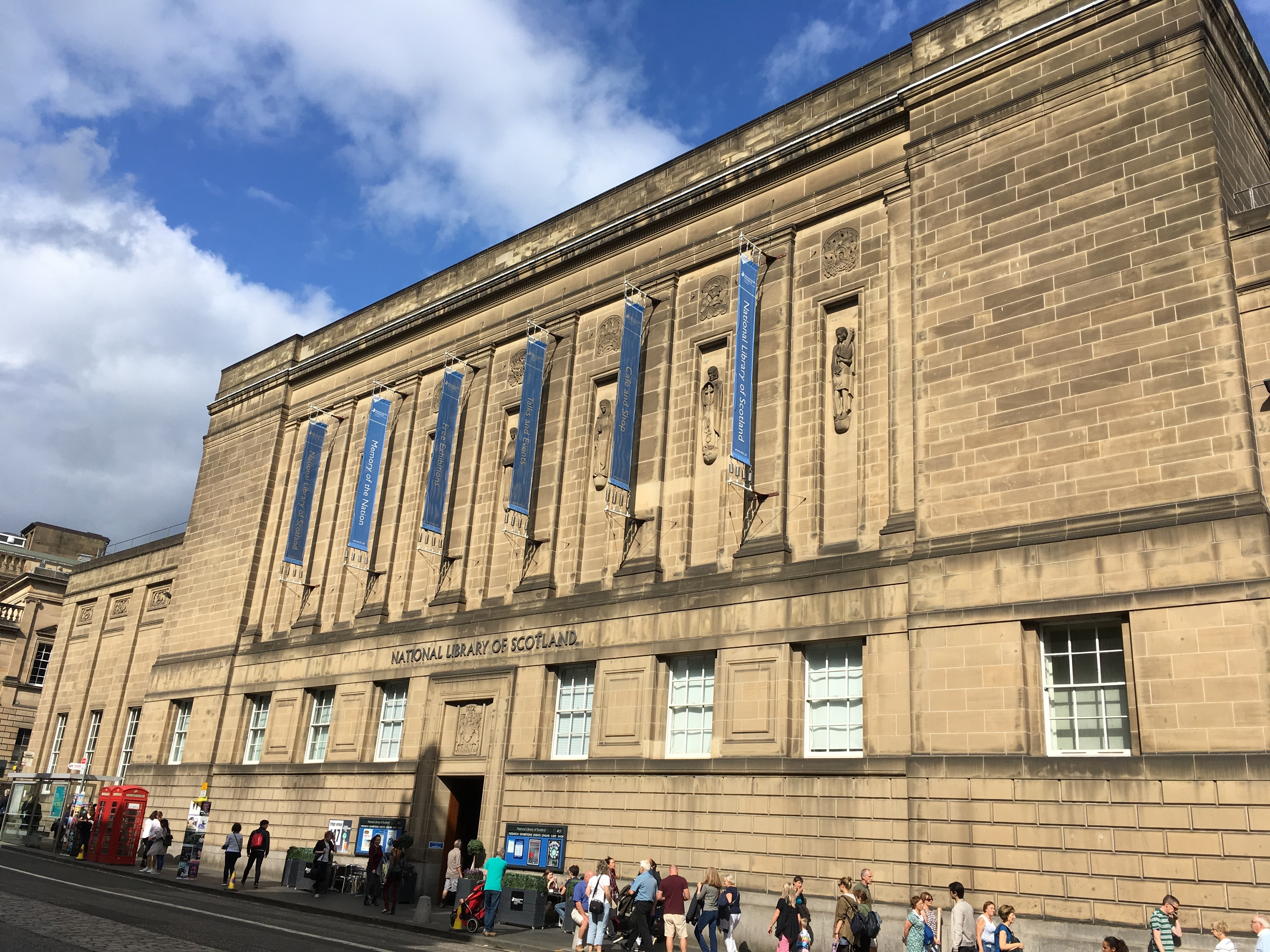 Edinburgh, 57 George Iv Bridge, National Library of Scotland Wikidata has entry Q17811993 with data related to this item.